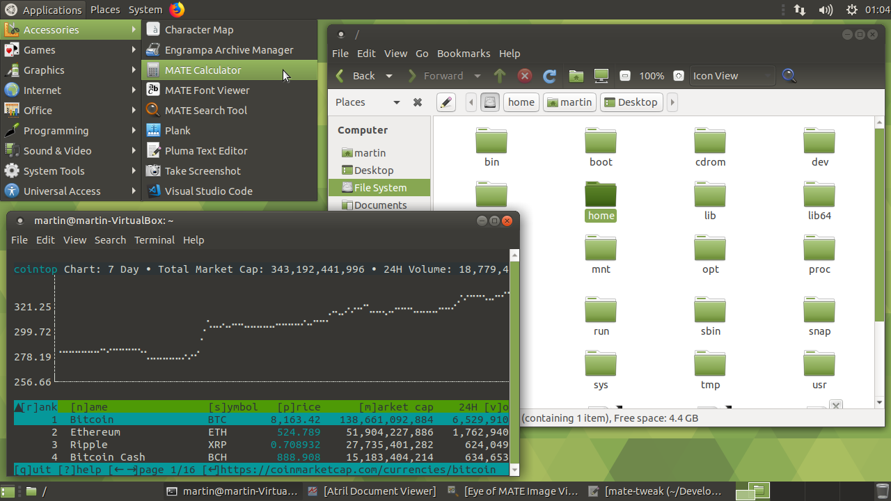 Screenshot of Ubuntu Mate with the 'traditional' interface